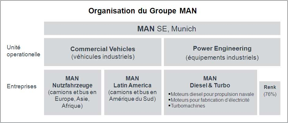 Structure of the MAN Group